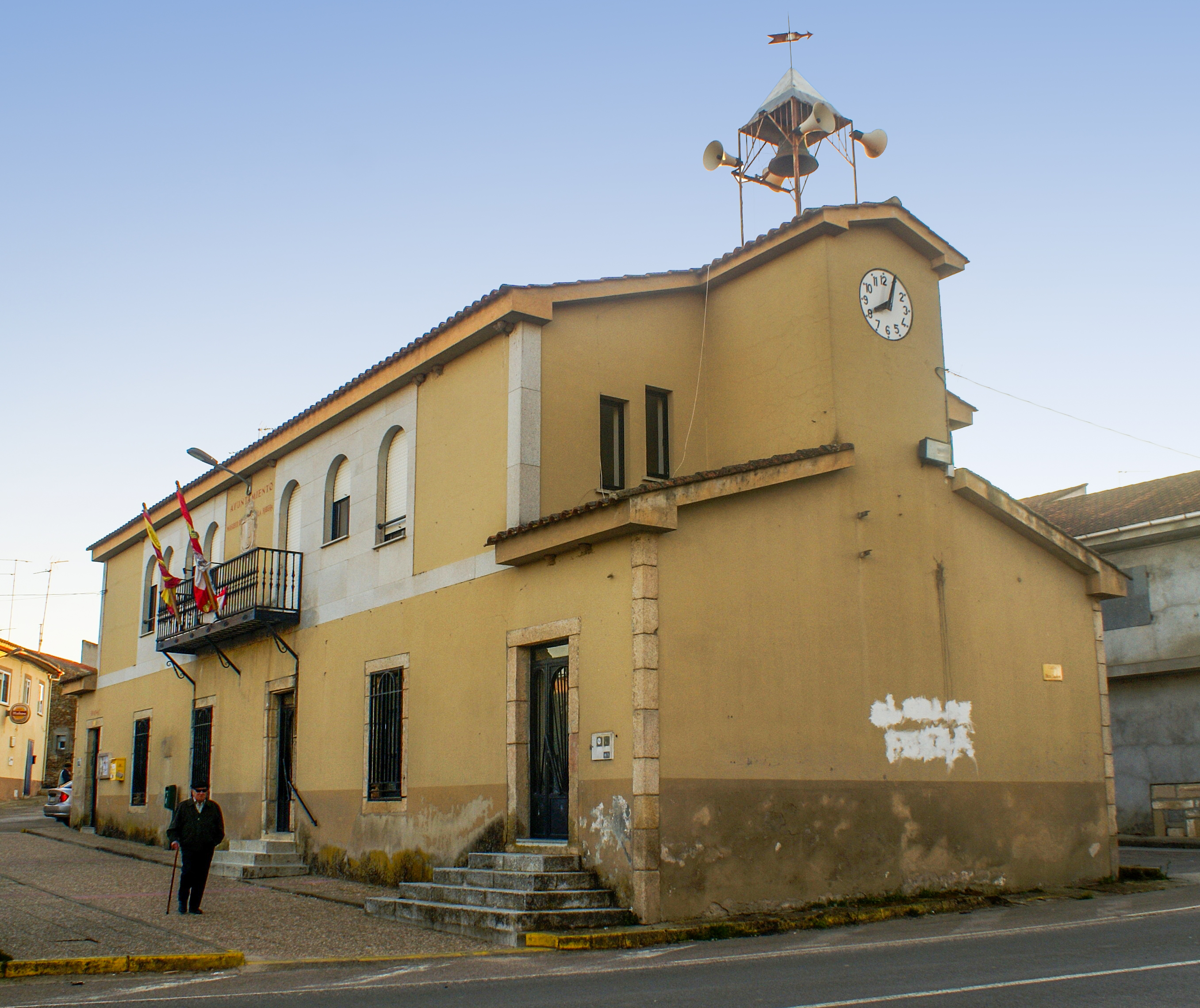 Town hall in Masueco, Salamanca, Spain.